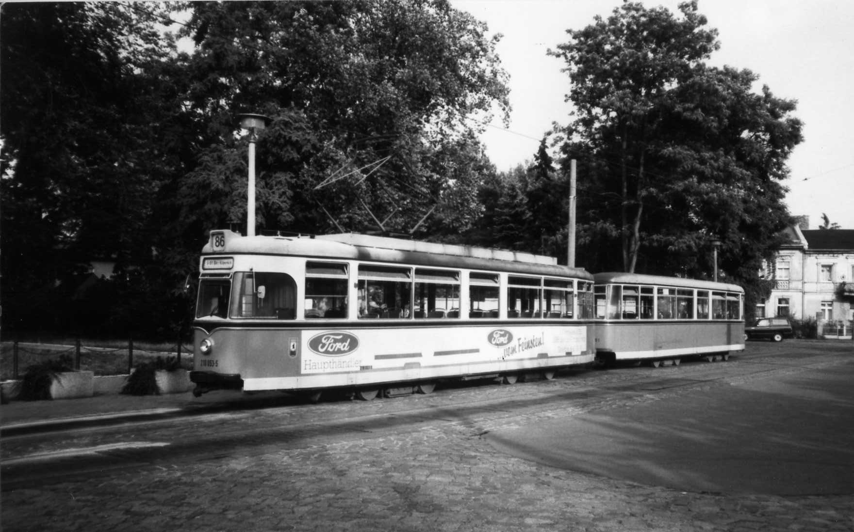 Triebwagen 218 053-5. A pair of the quite stunningly beautiful Gotha-Großraumwagen which Berlin used on the routes in the south east of the city. The 86 route went between here Alt-Schmöckwitz and S-Bhf. Köpenick, having been cut back many years previously from Mahlsdorf/Süd. From 1980, all of these cars, (68 motors and 122 trailers originsally but much reduced, especially in trailers by 1984) were based at Köpenick. In 1993 the 86 was renumbered as the 68. These Gotha vehicles finaly left Berlin in Summer 1996. Car 053 originaly ran in Magdeburg until 1969, and was renumbered 3853 in 1993. Numbers above 034 of motor cars were acquired from Dresden and Magdeburg. Below that they were new to Berlin.